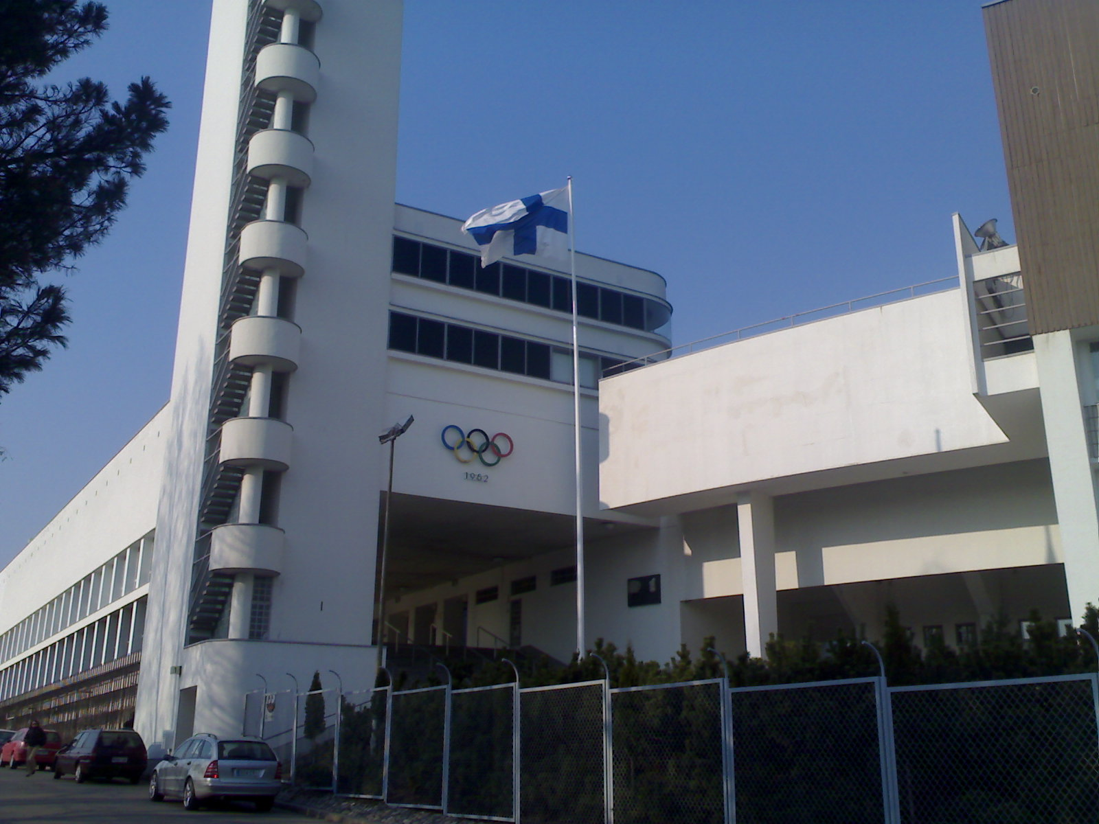 Finnish Flag at the Helsinki Olympic Stadion in April 2006.